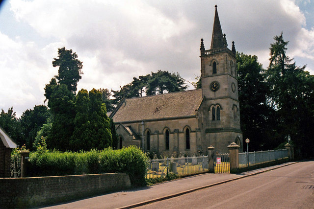 St Edward's parish church, Dorrington, Shropshire, seen from the east